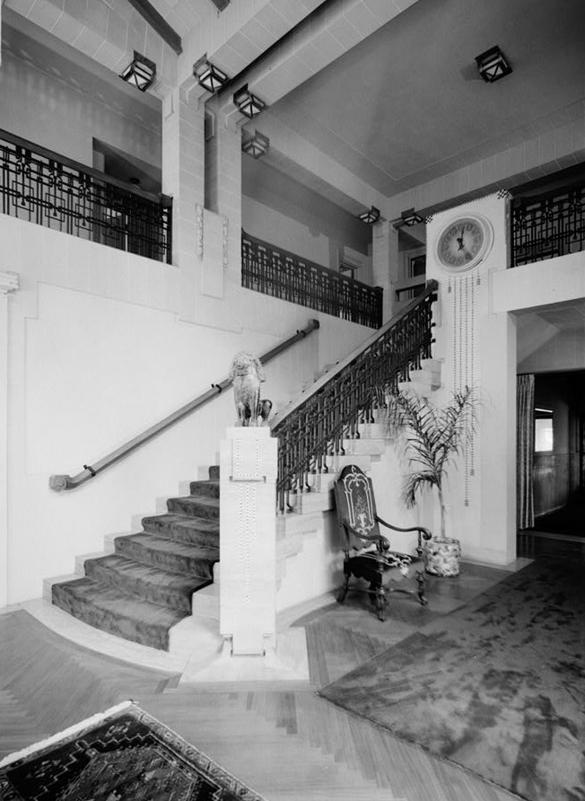 Bernard Corrigan House, Kansas City (Prairie Style)